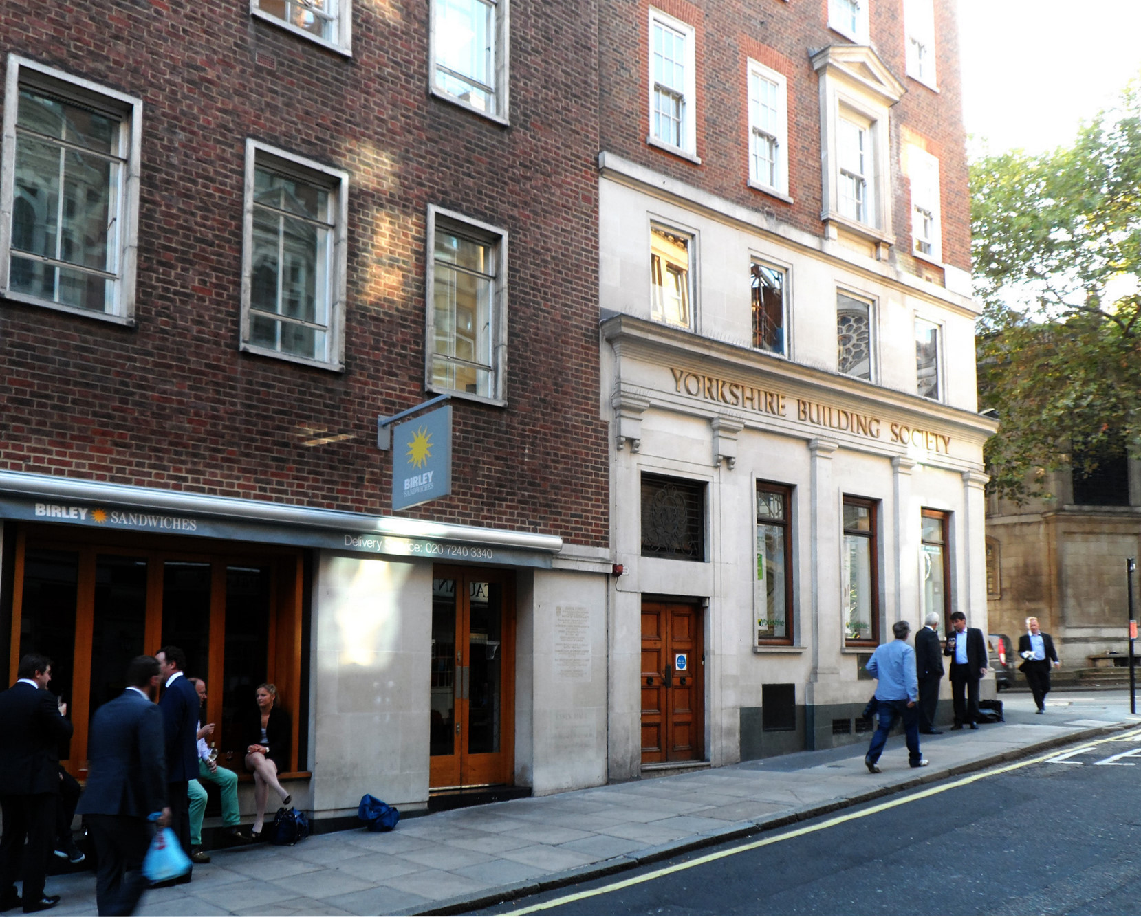 Essex Hall, 7 Essex Street, London EC2